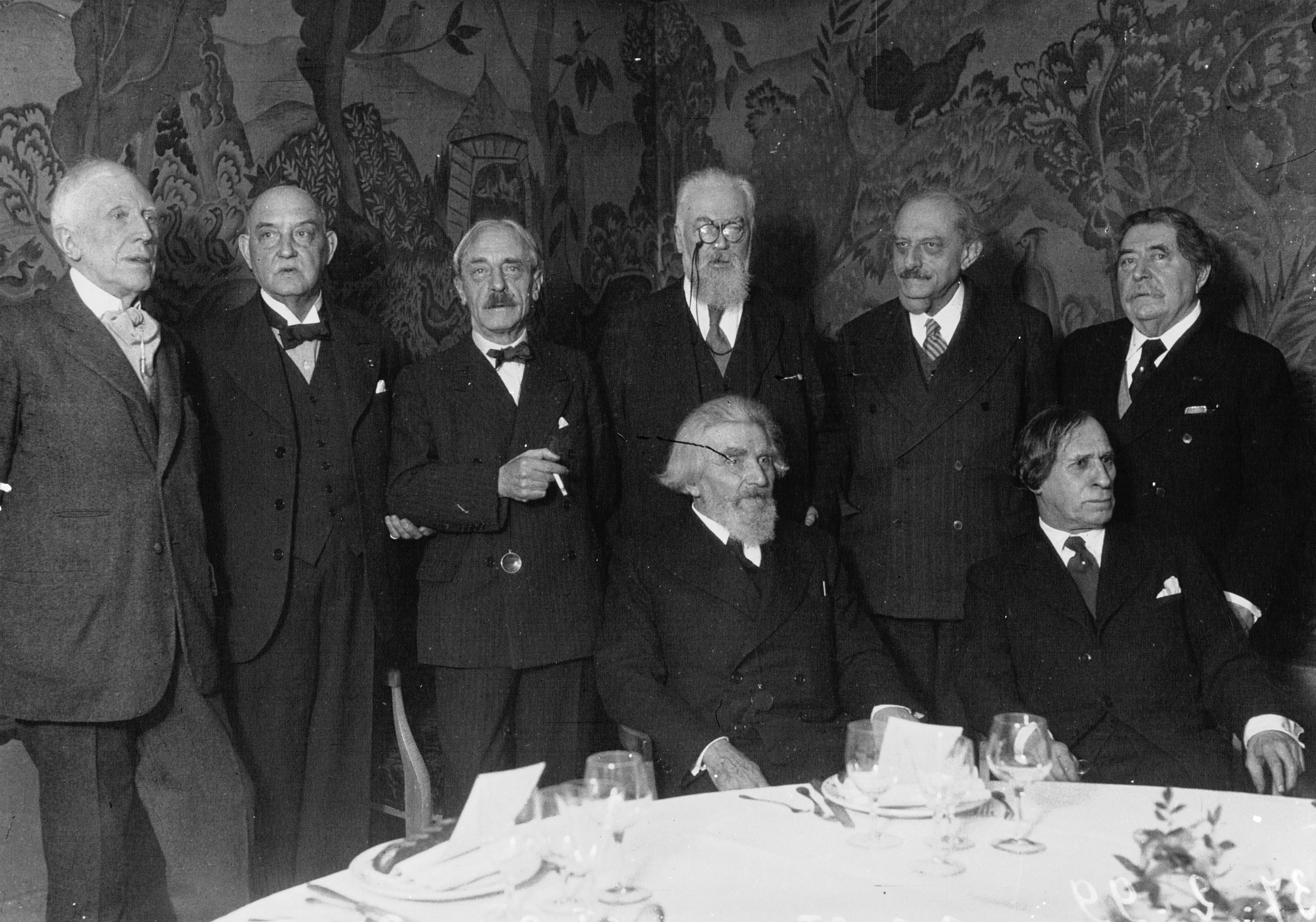 Some of the founders of the Académie Mallarmé in Paris in 1937.From left to right:Standing: Édouard Dujardin, Francis Vielé-Griffin, Paul Valéry, André-Ferdinand Hérold, André Fontainas, Jean Ajalbert.Seated: Saint-Pol-Roux, Paul Fort.